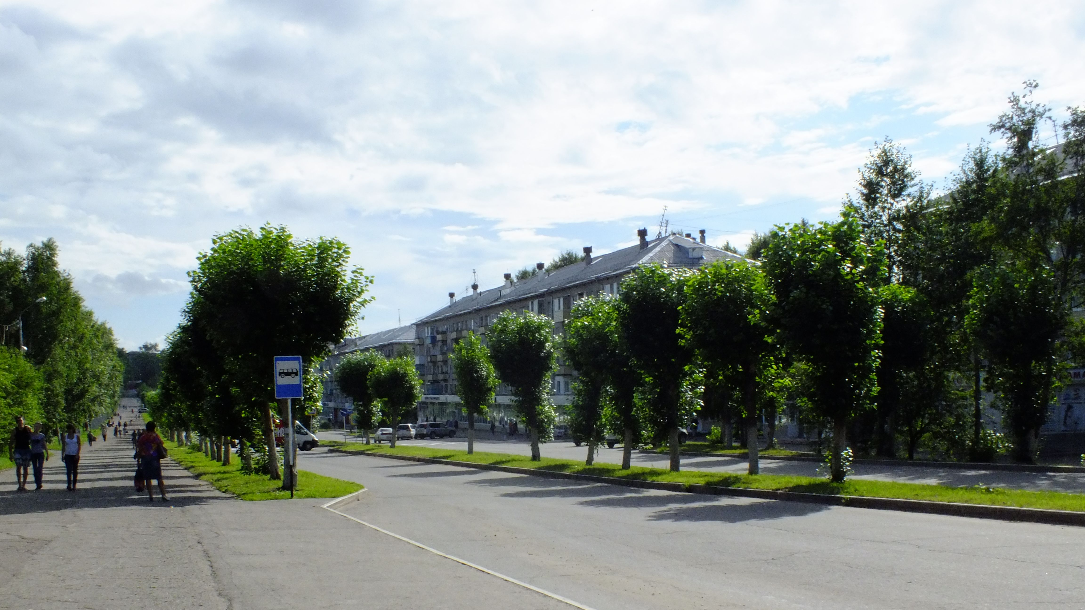 Amursk